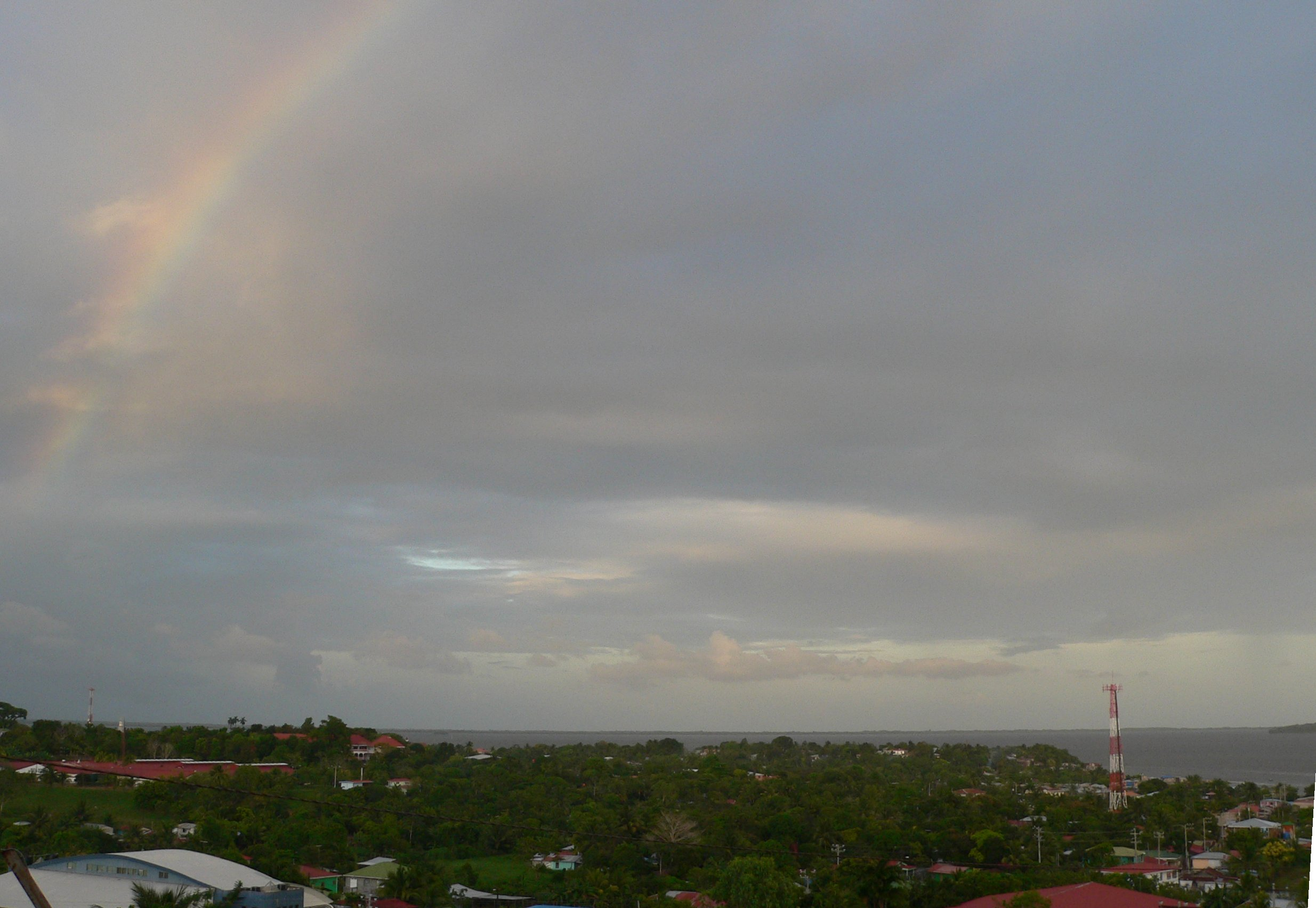 Bluefields, Nicaragua, skyline showing Bluefields Bay (Bahia de Bluefields), taken from Barrio San Pedro, above the Inatec campus, near La Loma restaurant.